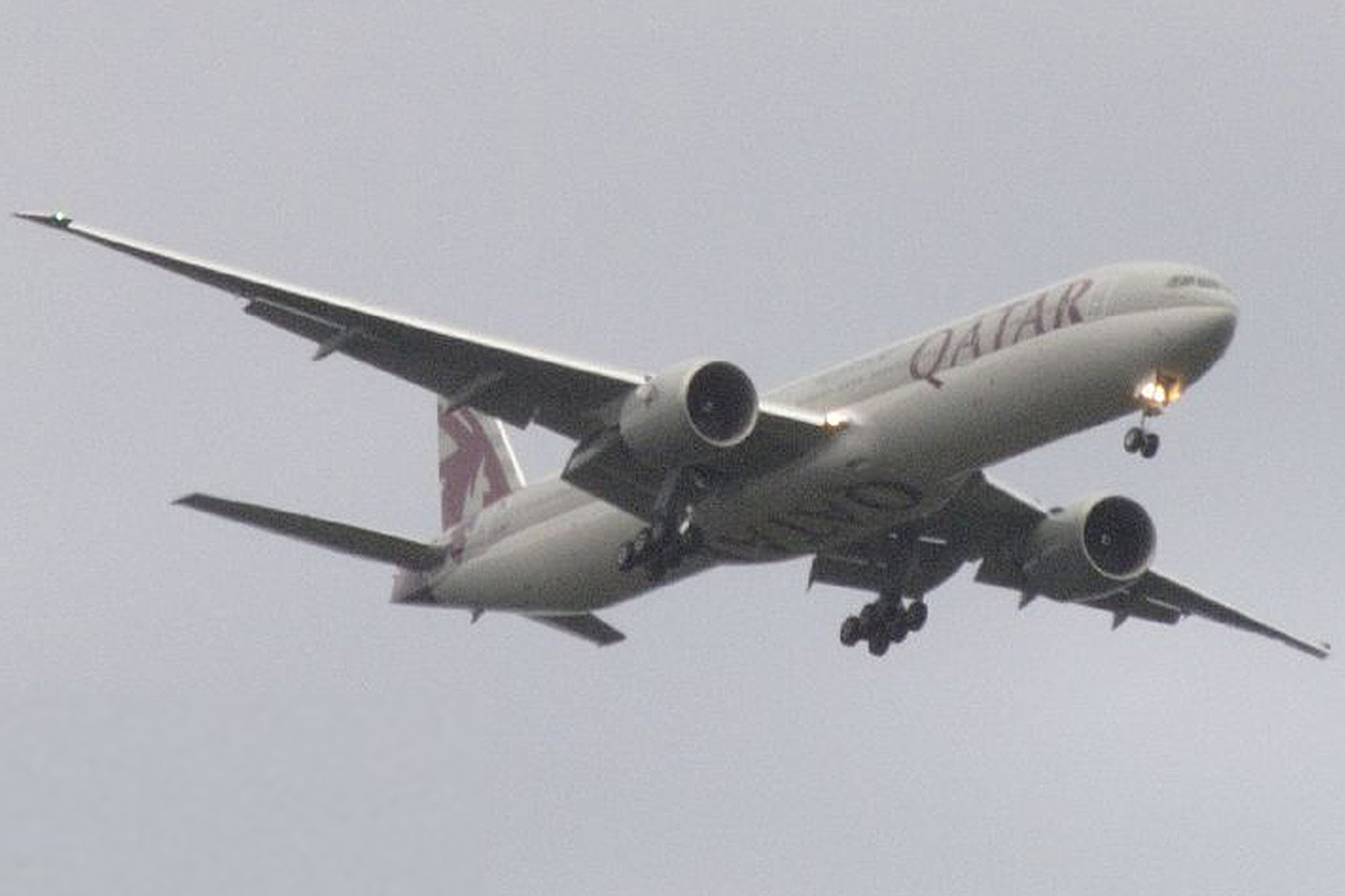 cn 37661 First flight Sept 16 2009